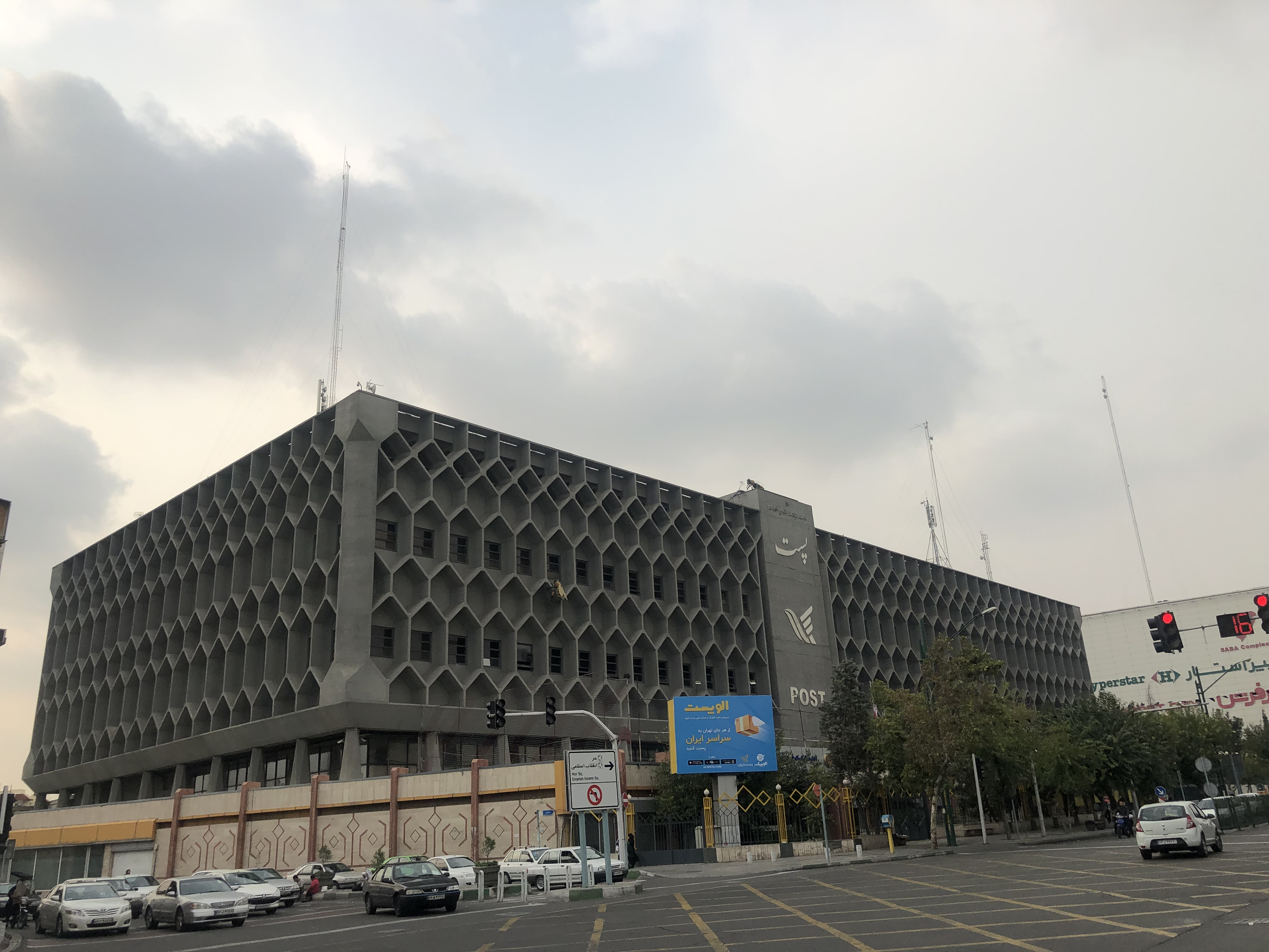 Post Iran Central Office